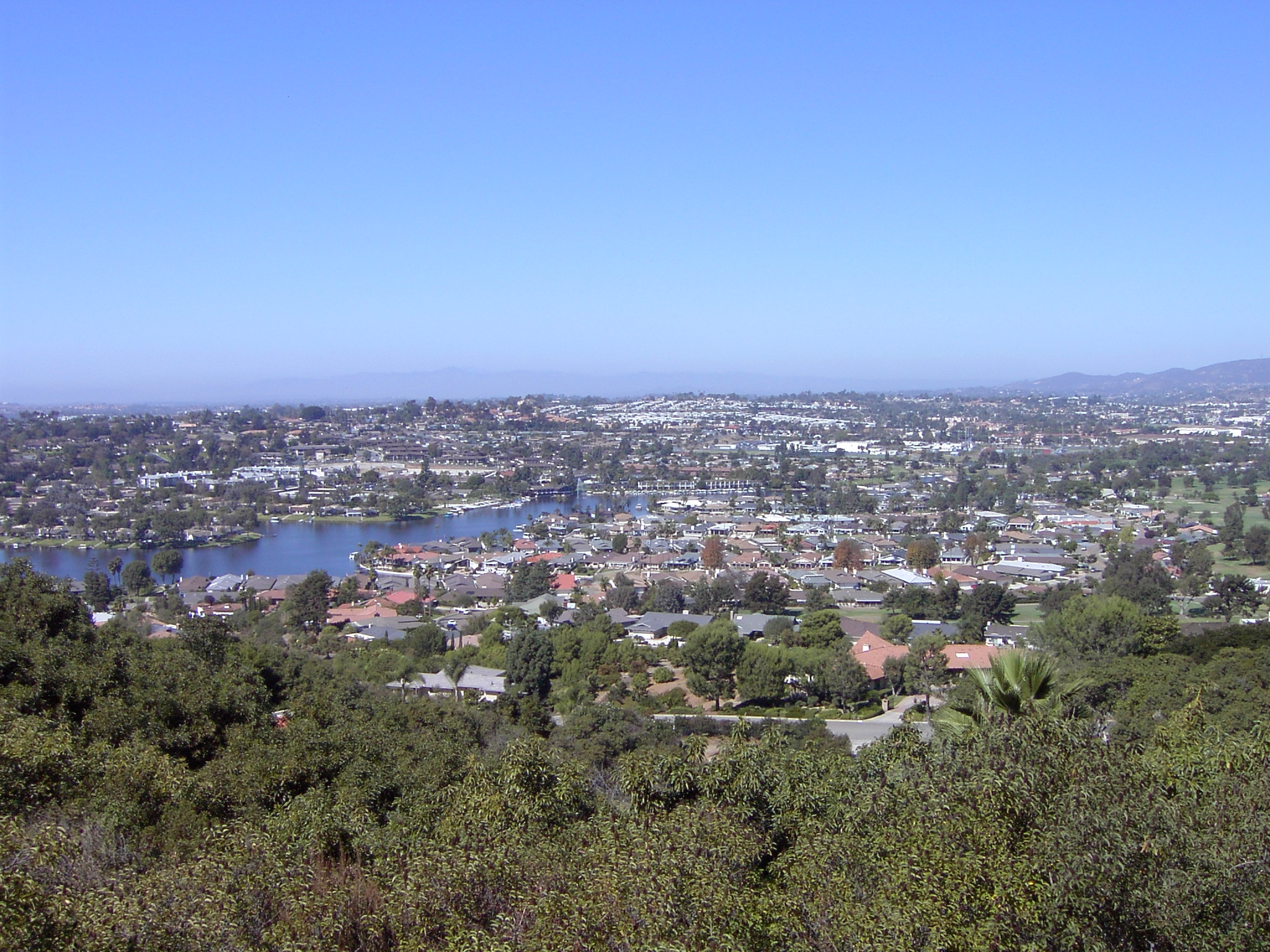 San Marcos, CA